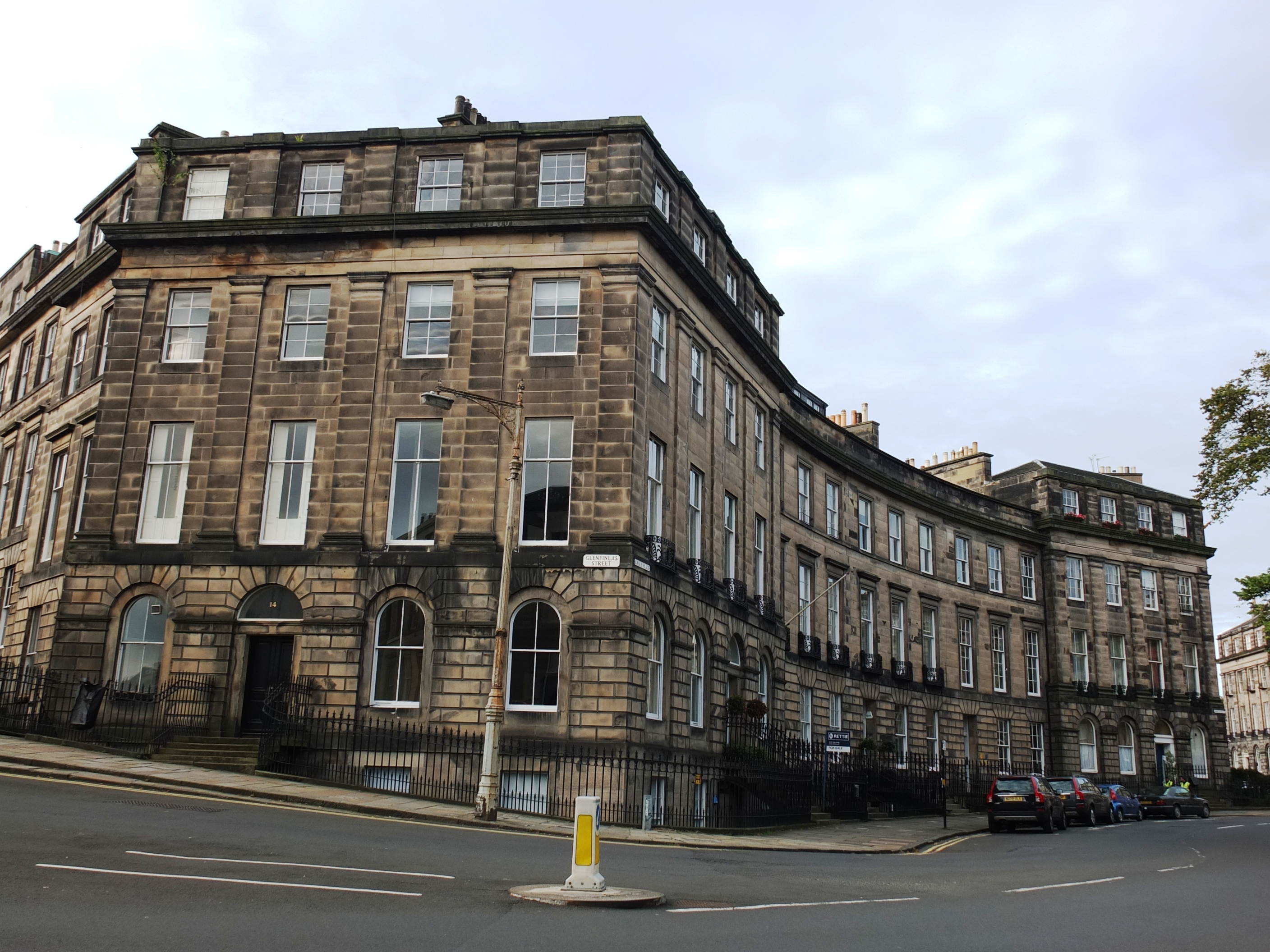 16-20 Ainslie Place, and 13-14 Glenfinlas Street